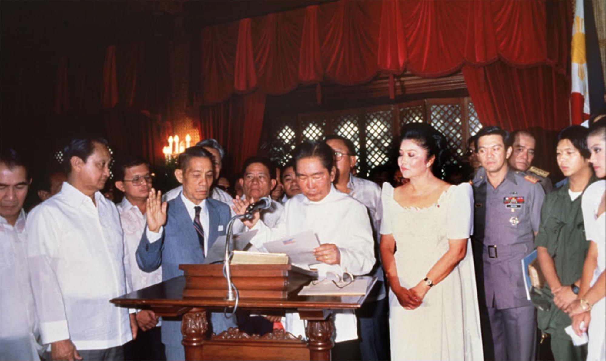 Philippine President Ferdinand E. Marcos is sworn by Chief Justice Ramon Aquino in the Ceremonial Hall of Malacañan Palace. The inauguration took place on February 25, 1986.